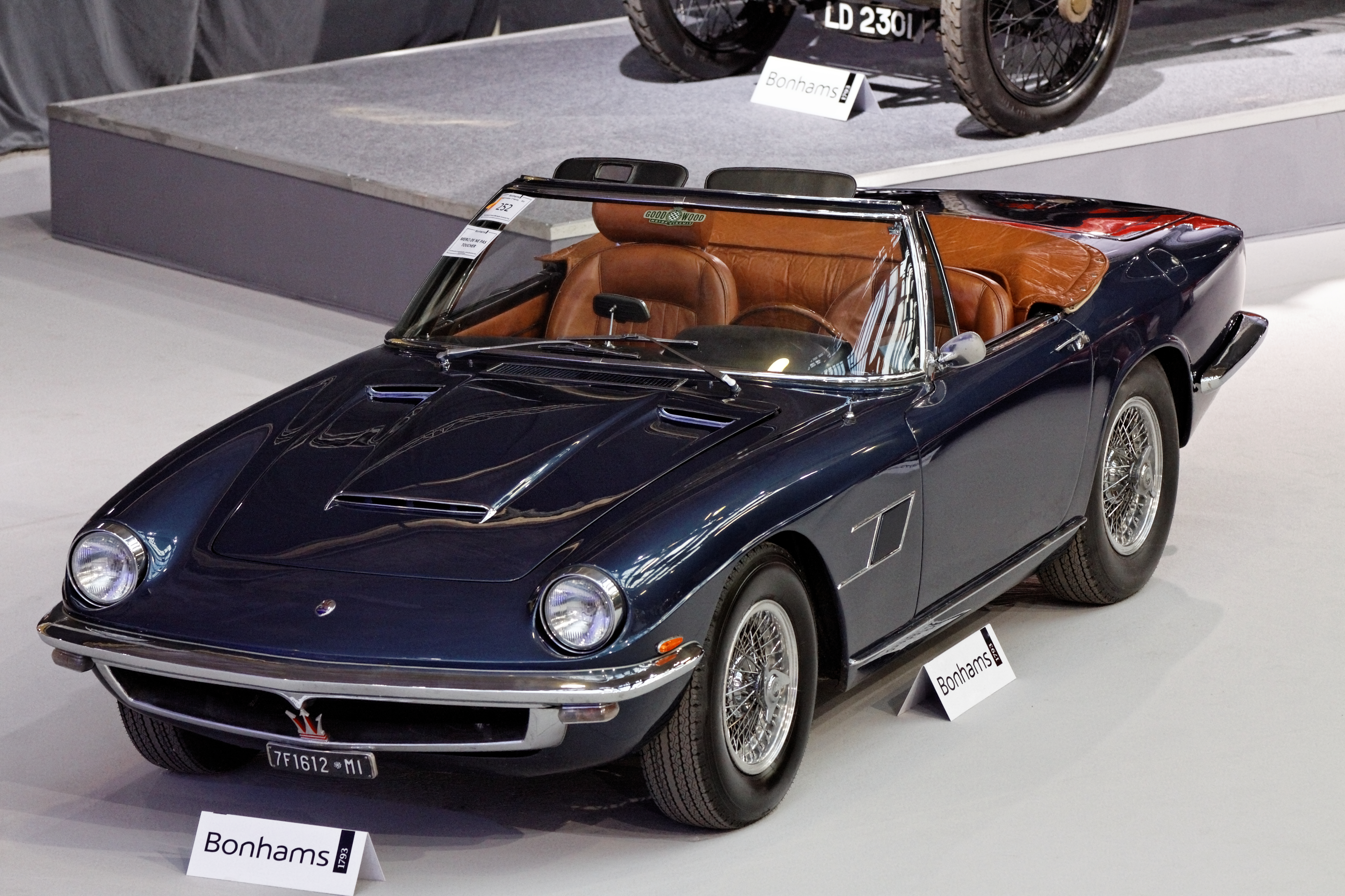 Maserati Mistral 4000 Spyder